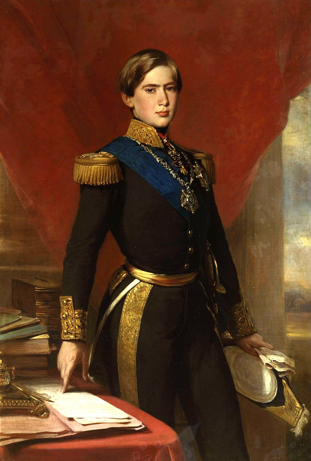 Located at Palácio Nacional da Ajuda